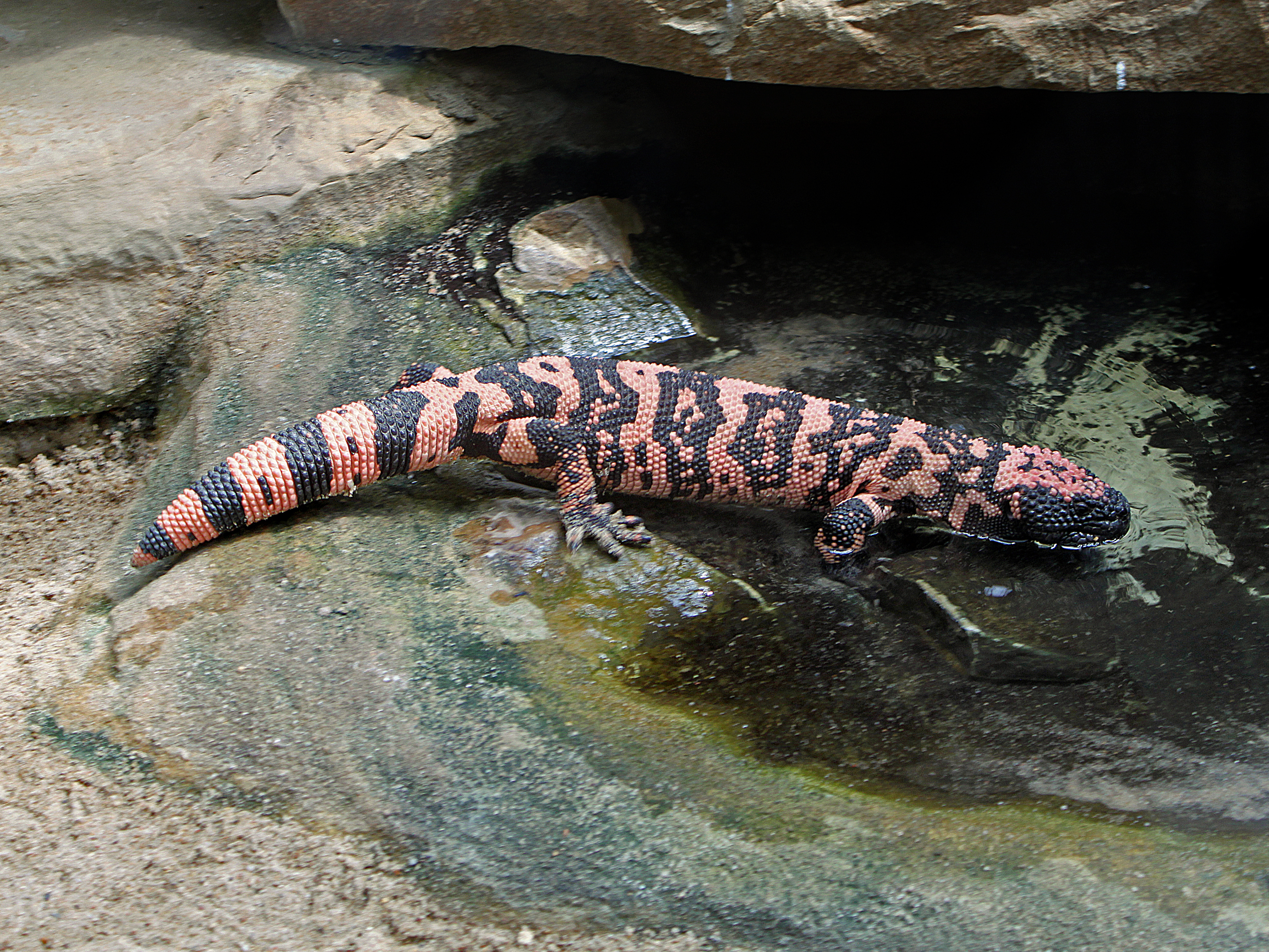 Gila monster, Aquarium Berlin.